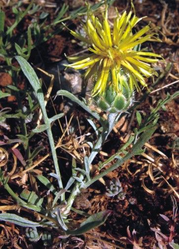 Centaurea rupestris subsp. kozanii